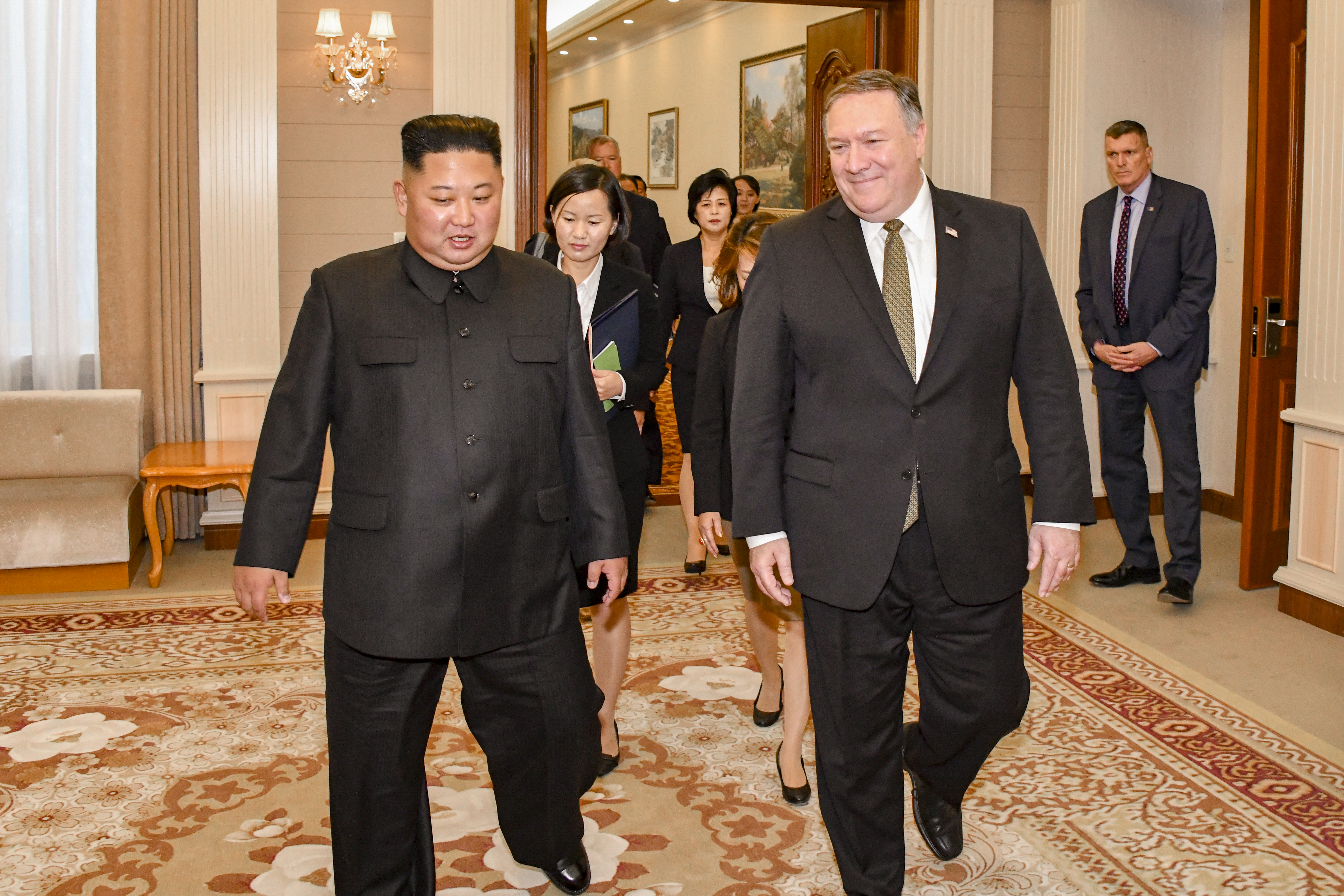 Secretary of State Michael R. Pompeo and Chairman Kim Jong Un of the Democratic People's Republic of Korea attend a working lunch in Pyongyang, Democratic People's Republic of Korea on October 7, 2018. [State Department photo/ Public Domain]